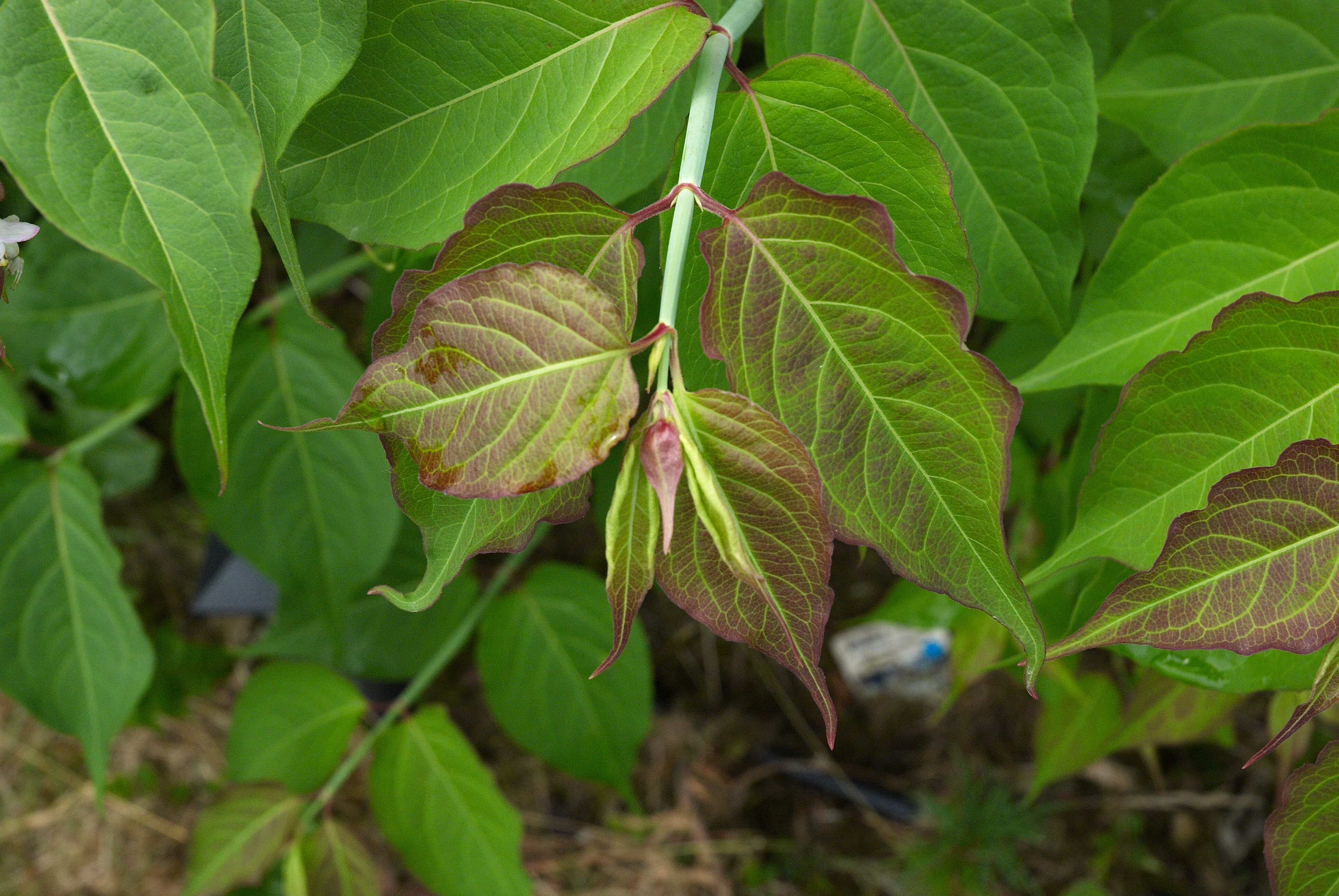 Leaves of Leycesteria formosa. This photo has been taken in Belgium.